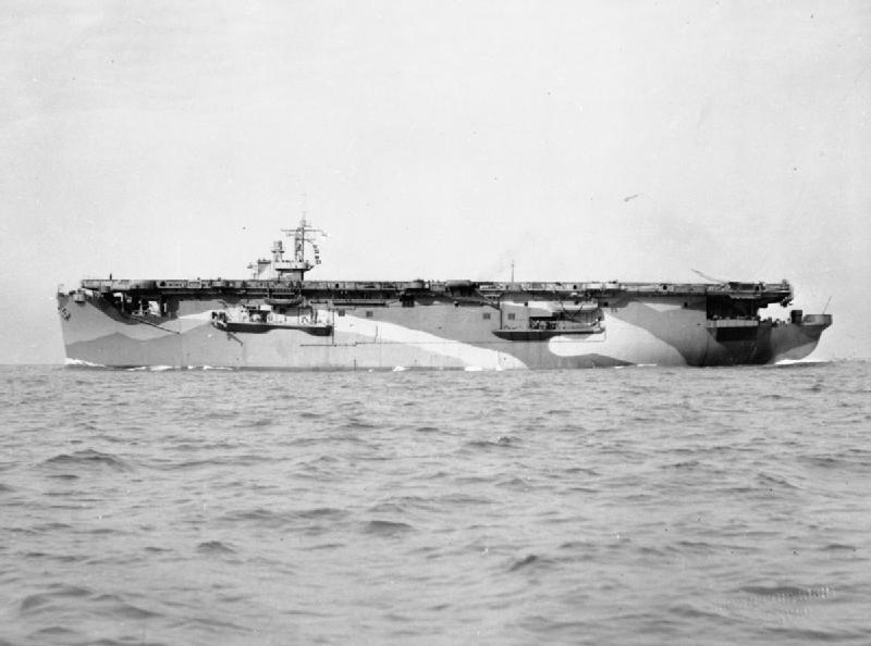 HMS Hunter Underway on completion